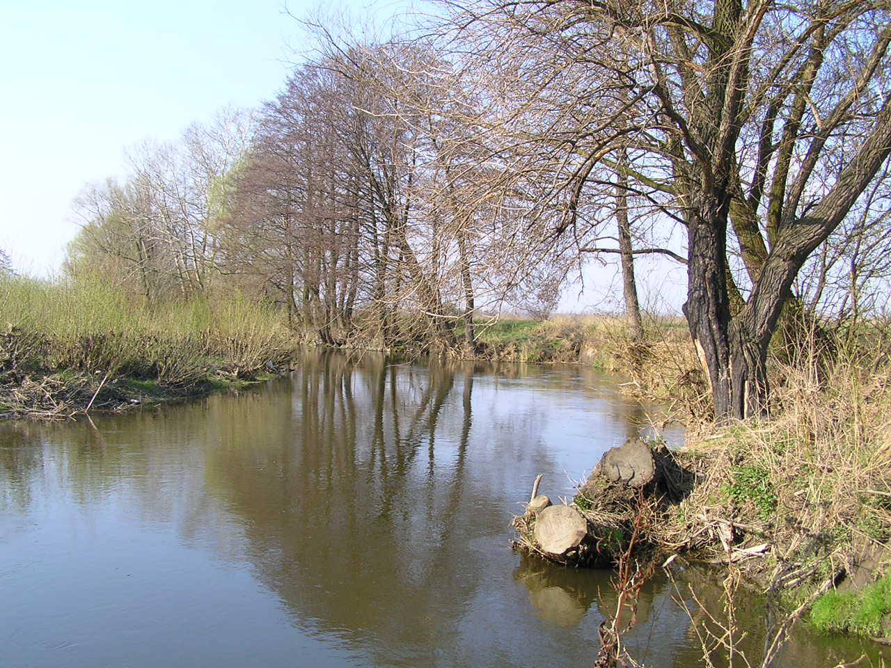 autor: Yarek shalom 22:06, 10 October 2006 (UTC)yarek shalom